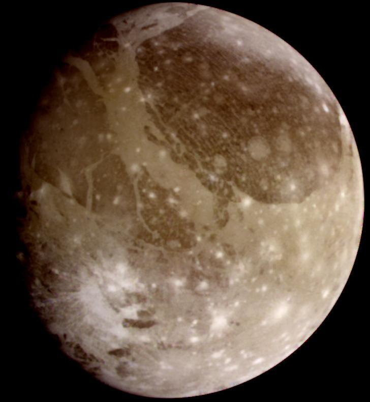 True color image of Ganymede, obtained by the Galileo spacecraft, with enhanced contrast. Here is the description from JPL's web entry for PIA00716: Natural color view of Ganymede from the Galileo spacecraft during its first encounter with the satellite. North is to the top of the picture and the sun illuminates the surface from the right. The dark areas are the older, more heavily cratered regions and the light areas are younger, tectonically deformed regions. The brownish-gray color is due to mixtures of rocky materials and ice. Bright spots are geologically recent impact craters and their ejecta. The finest details that can be discerned in this picture are about 13.4 kilometers across. The images which combine for this color image were taken beginning at Universal Time 8:46:04 UT on June 26, 1996. The Jet Propulsion Laboratory, Pasadena, CA manages the mission for NASA's Office of Space Science, Washington, DC. This image and other images and data received from Galileo are posted on the World Wide Web, on the Galileo mission home page at URL Background information and educational context for the images can be found at